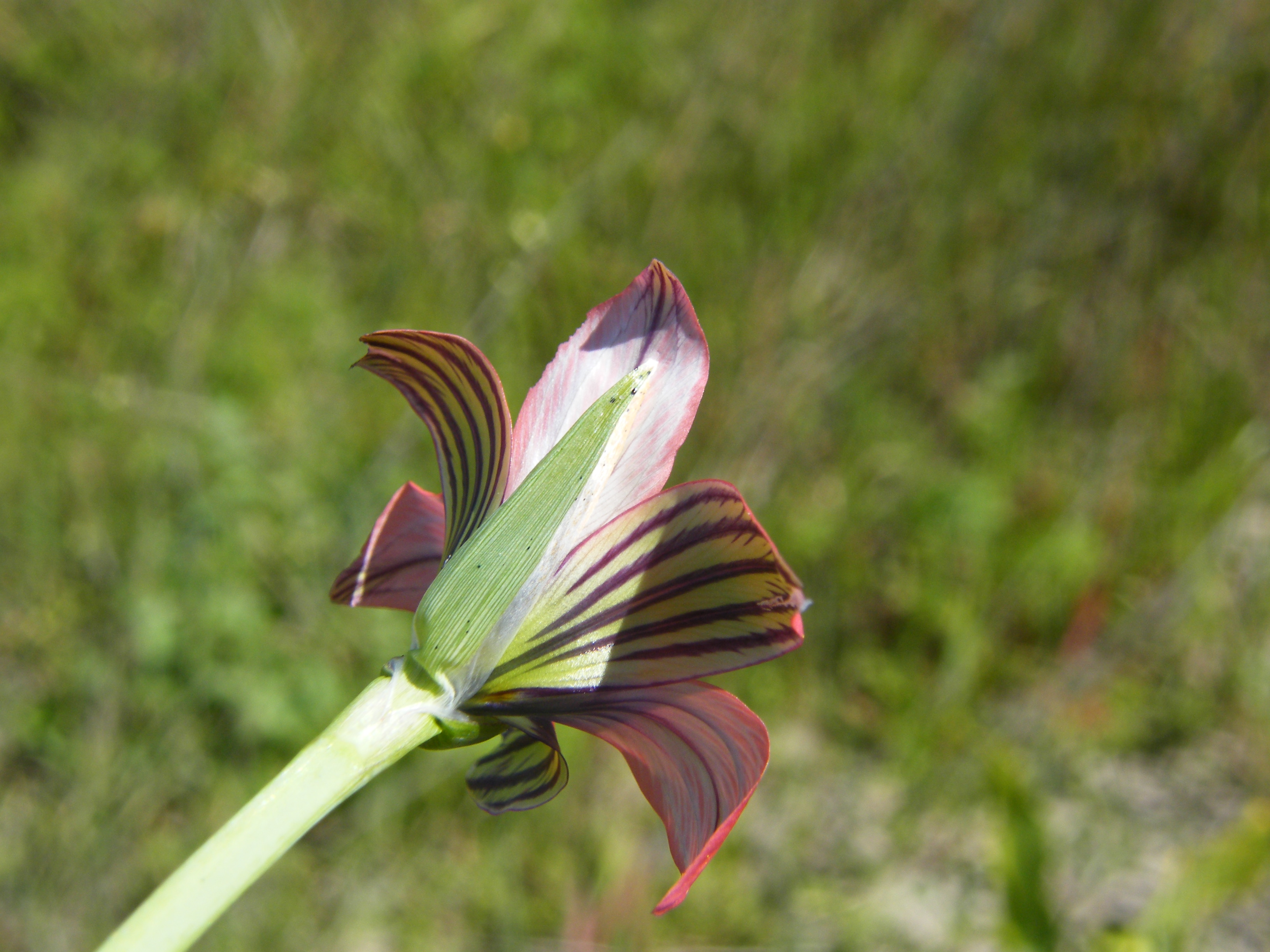 Striped back and dry sheath.